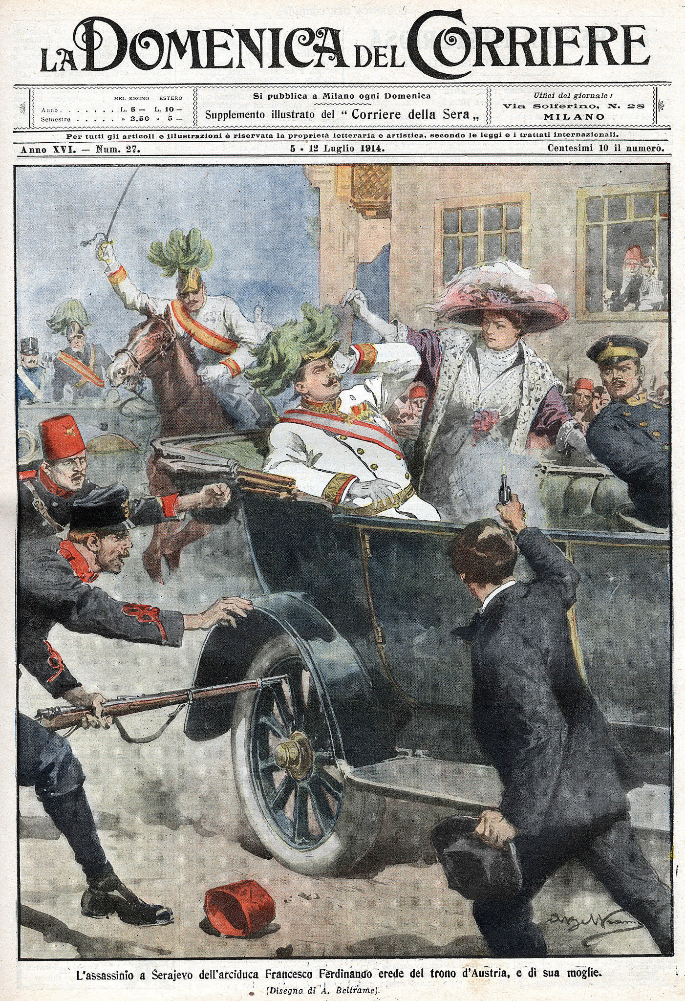 The first page of the edition of the Domenica del Corriere, an Italian paper, with a drawing of Achille Beltrame depicting Gavrilo Princip killing Archduke Francis Ferdinand of Austria in Sarajevo